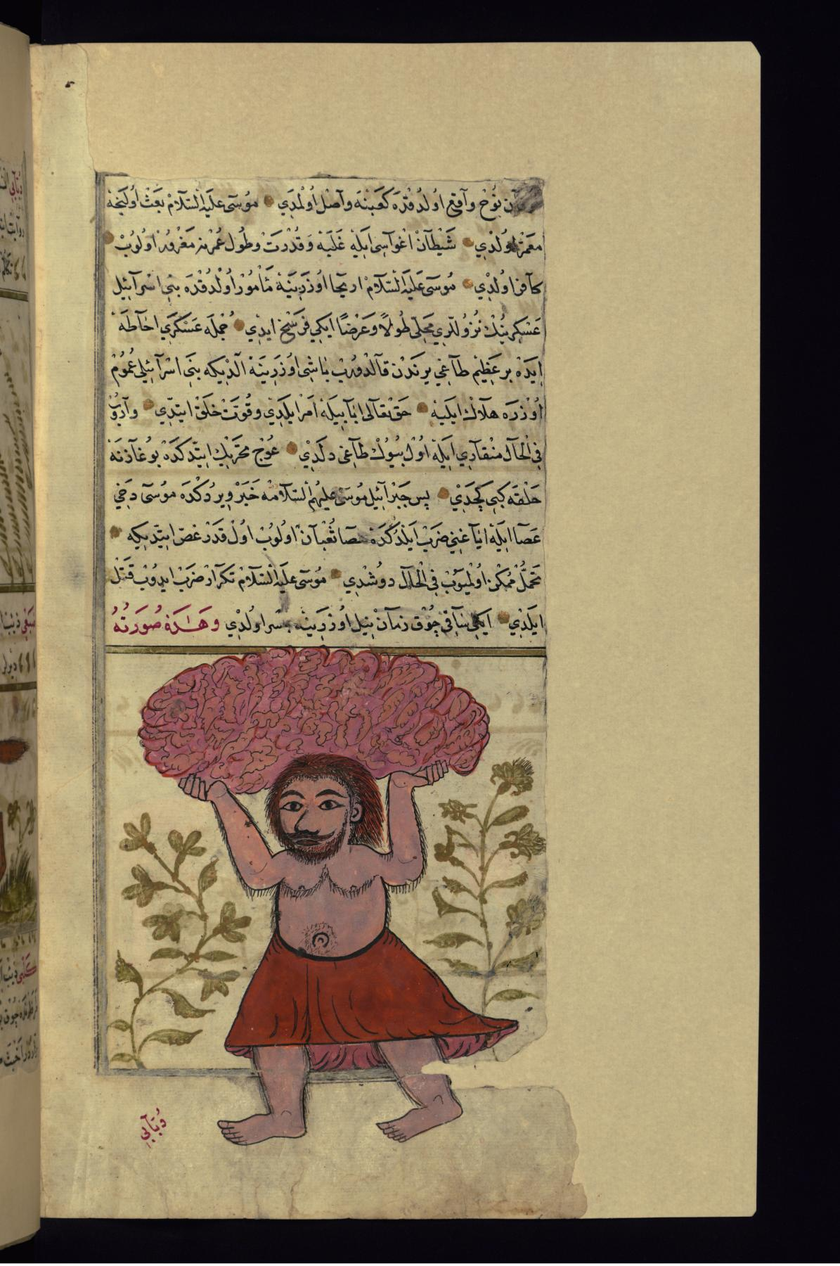 On this folio from Walters manuscript W.659, The demon 'Uj ibn 'Unuq carries a mountain with which to kill Moses and his men.